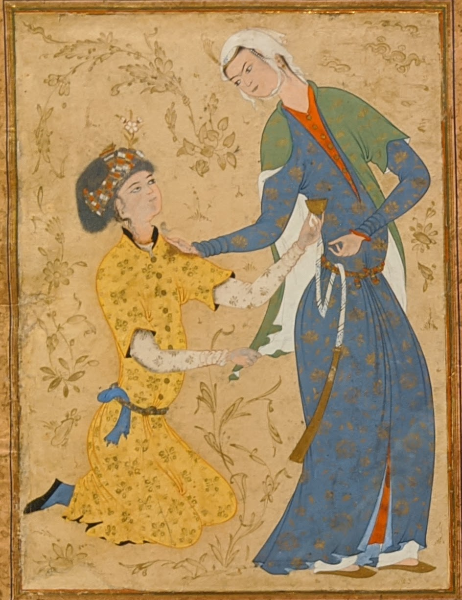 Man clutching the hem of his beloved. According to the Boston Museum of Fine Arts exhibit, this action is a metaphor for a Sufi's "agony of longing, a necessary step on the path to union with God" From Iran or Central Asia 16th century. Watercolor and gold on paper